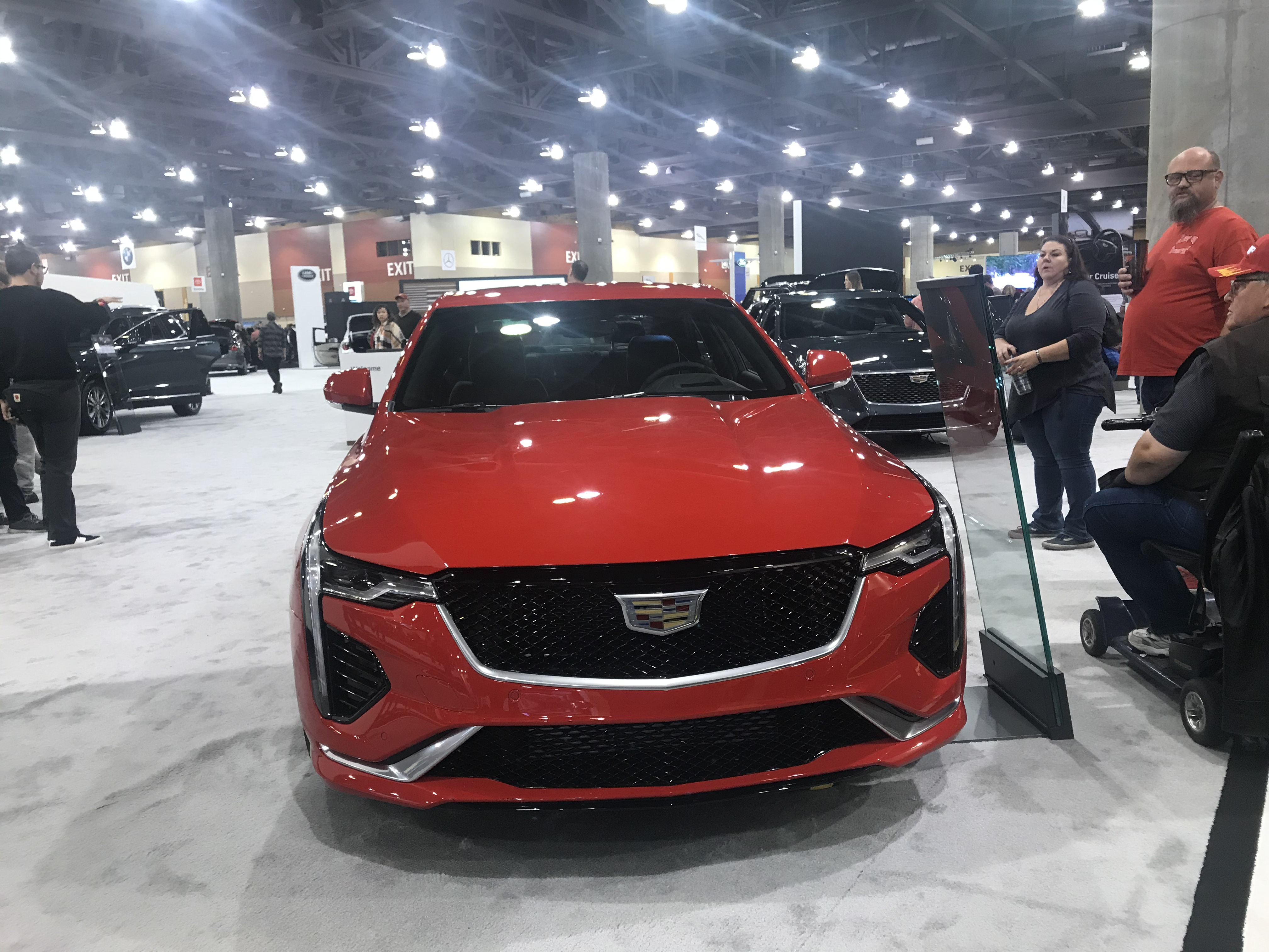 A 2020 Cadillac CT4 at the Arizona International Auto Show in Phoenix, Arizona